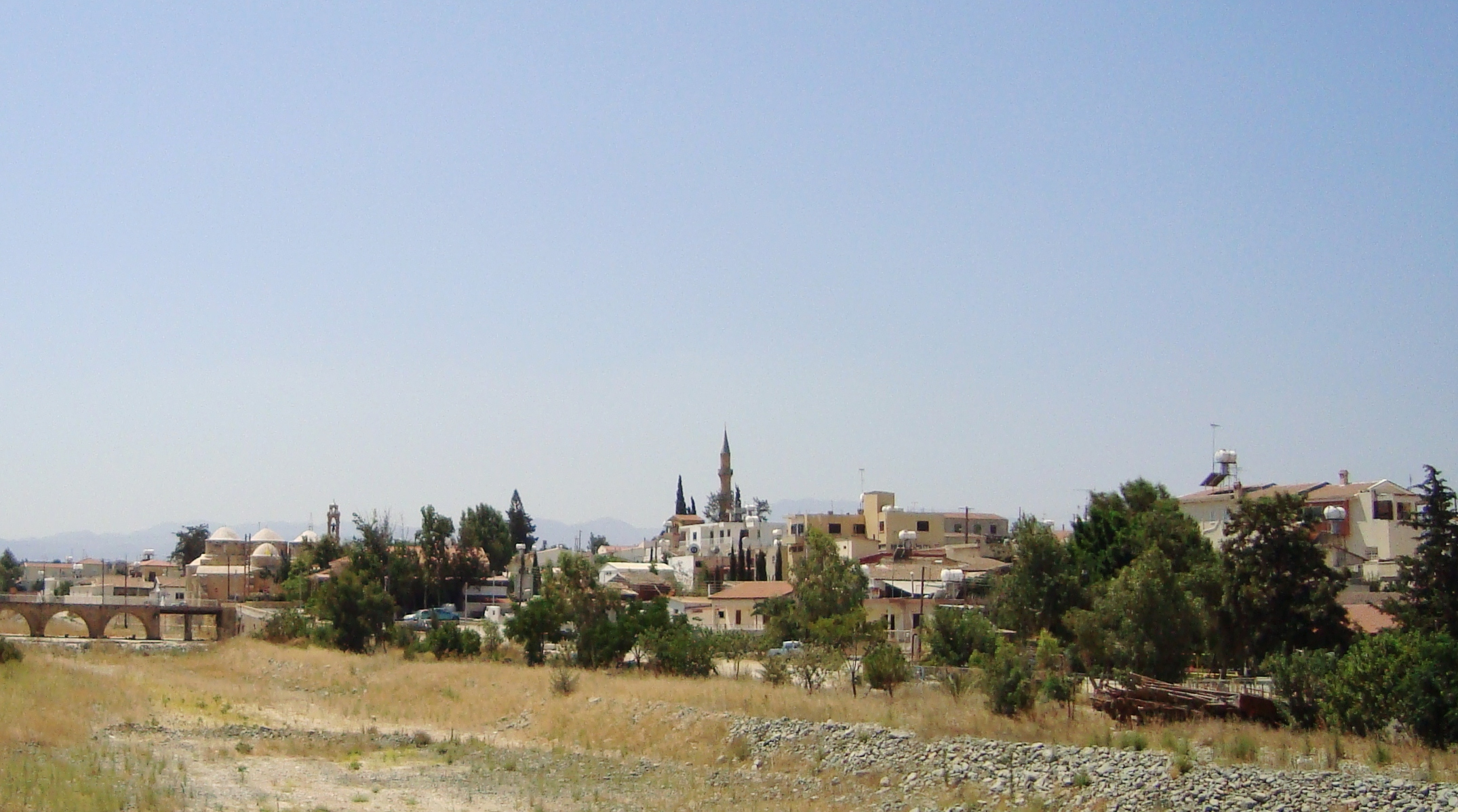 In Peristerona Greek and Turkish Cypirots were living peacefully and this can be shown by a mosque next to an orthodox church in the center of the village.